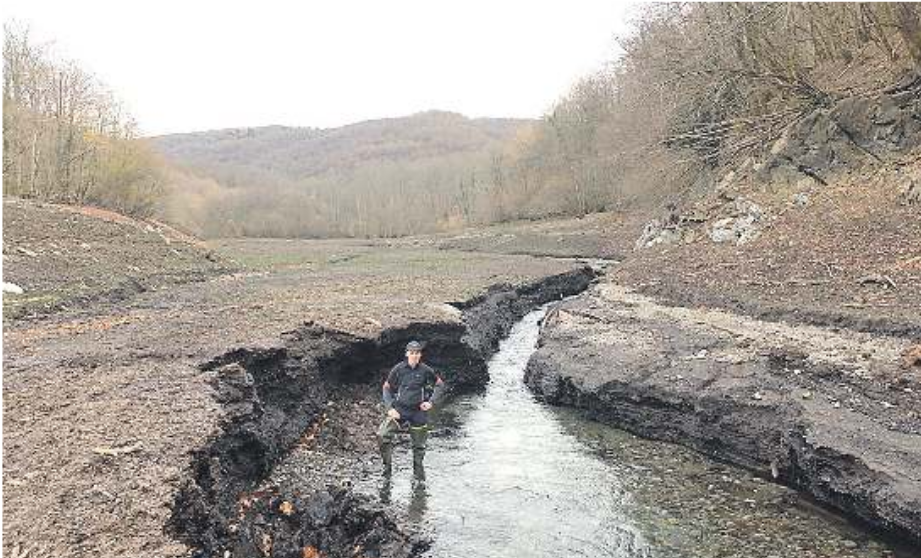 Professor of Ecology at the University of the Basque Country, Arturo Elosegi, in February 2019, researching on the recovery of nature in the recently emptied reservoir of Artikutza (Photo: BERRIA)